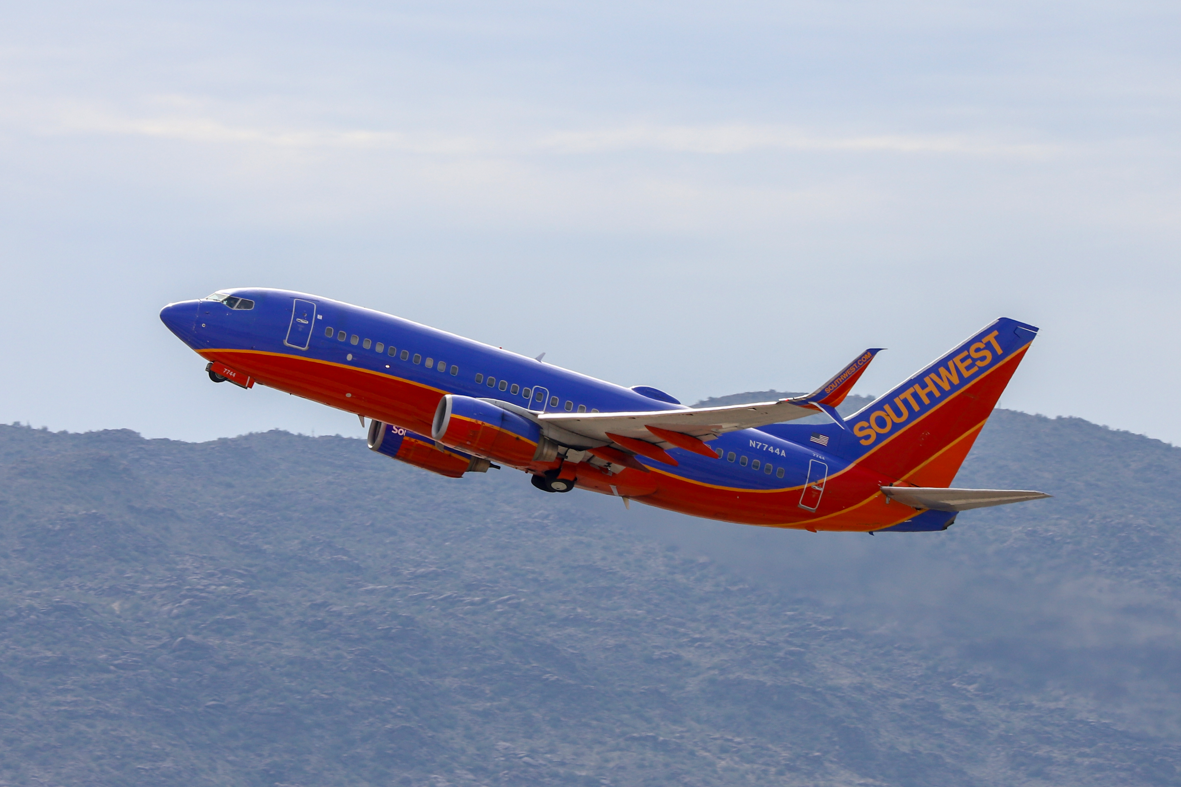 A Southwest 737-700 departing Phoenix Sky Harbor International Airport.